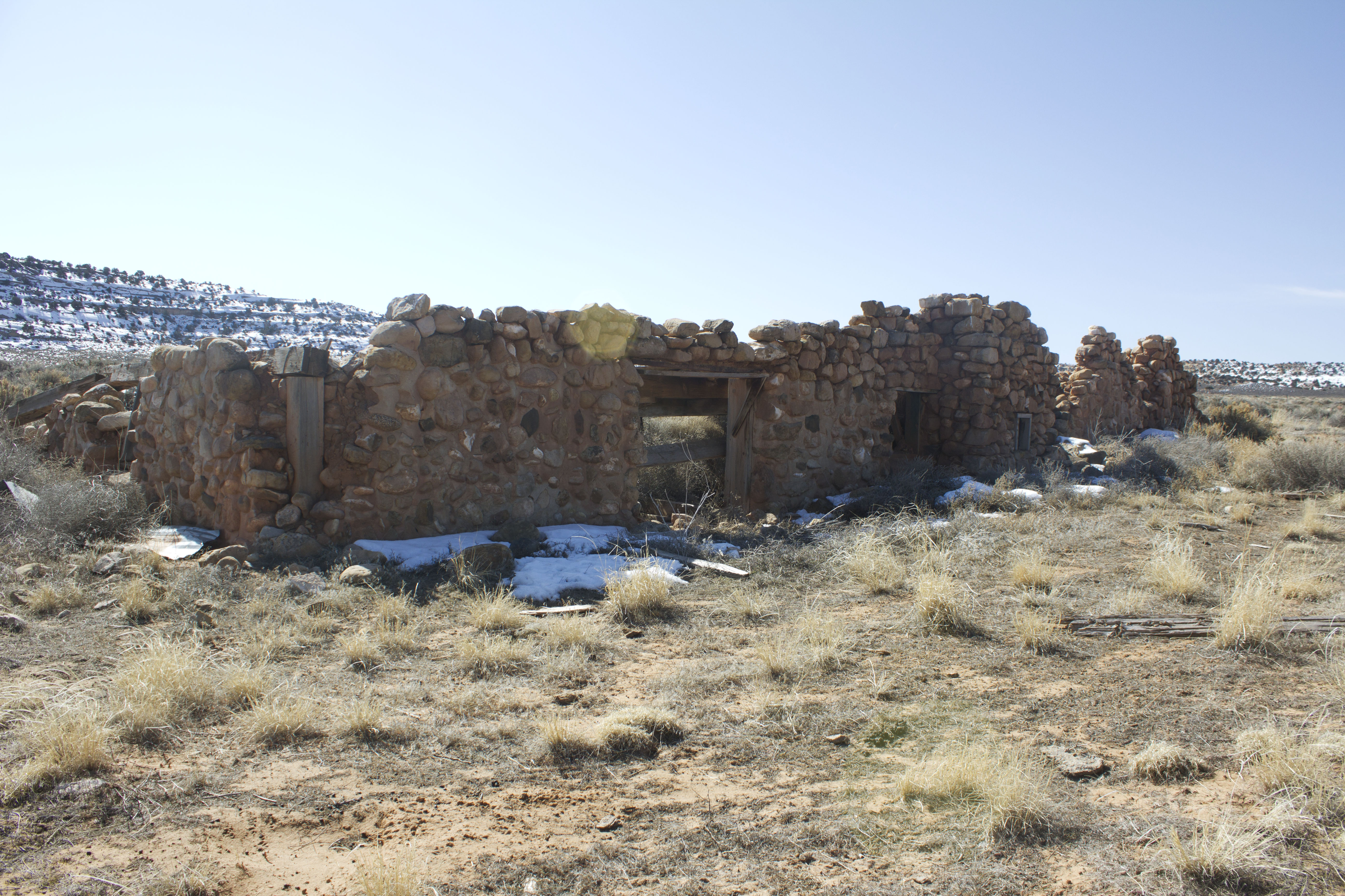 The foundation of an unfinished chapel in Home of Truth, a ghost town in southeastern Utah, United States.